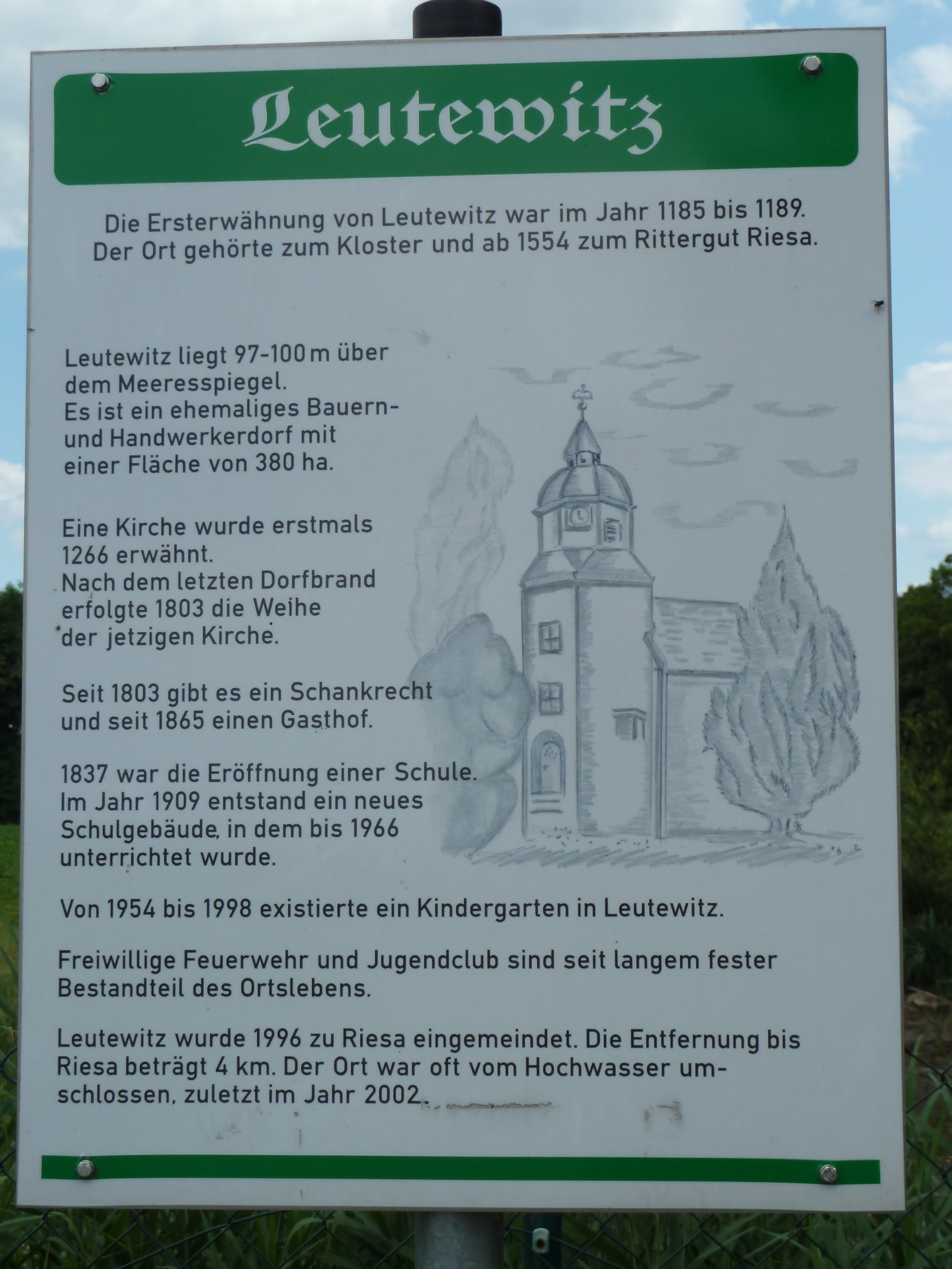 Informations about the village Leutewitz (Riesa)